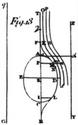 D'Alembert's paradox